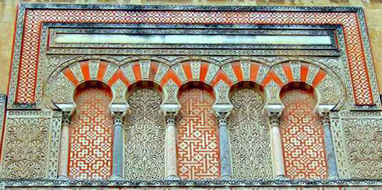 Arcos del muro este de la Mezquita-Catedral de Córdoba.